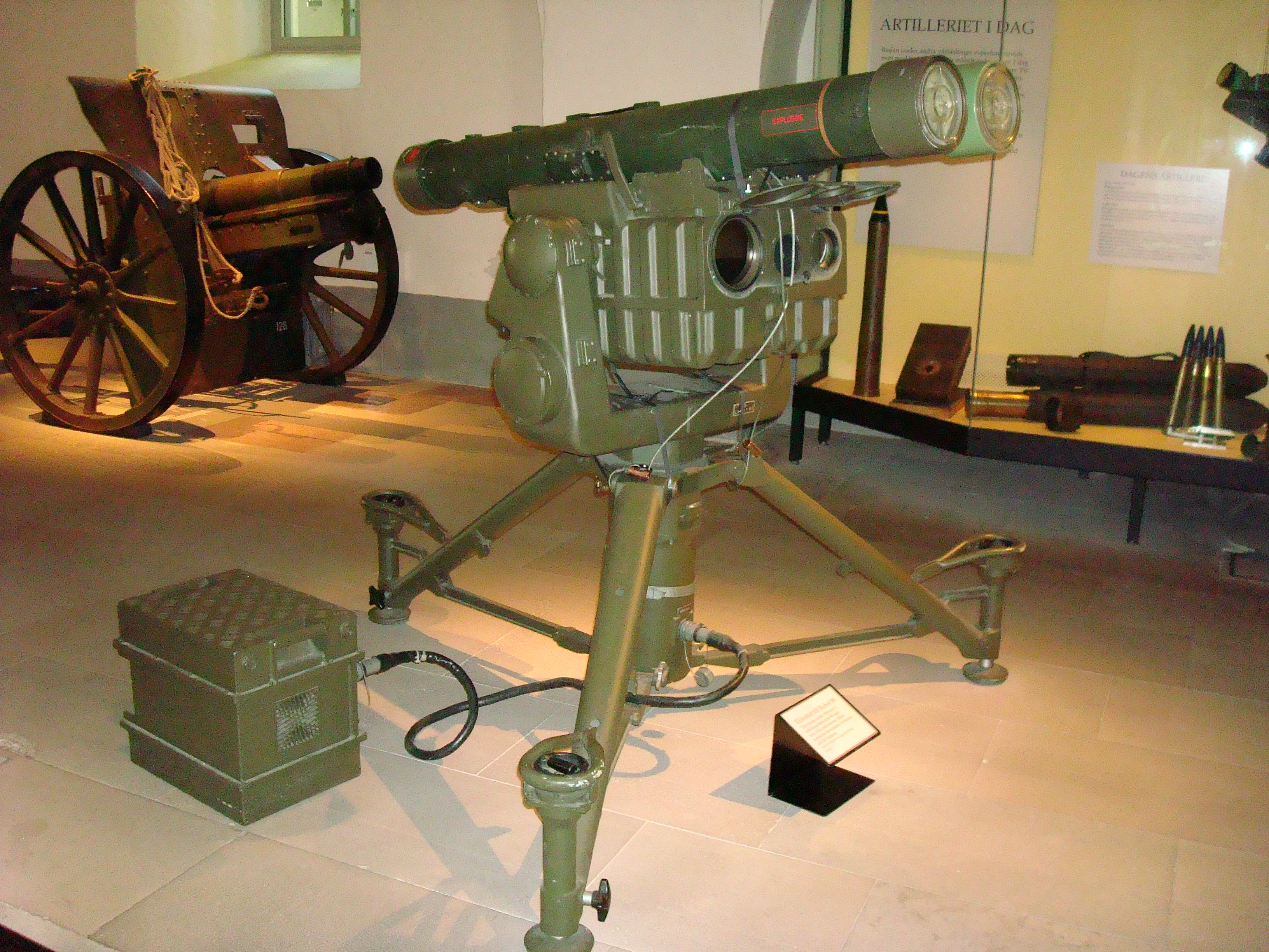 Launcher unit of Robotsystem 90